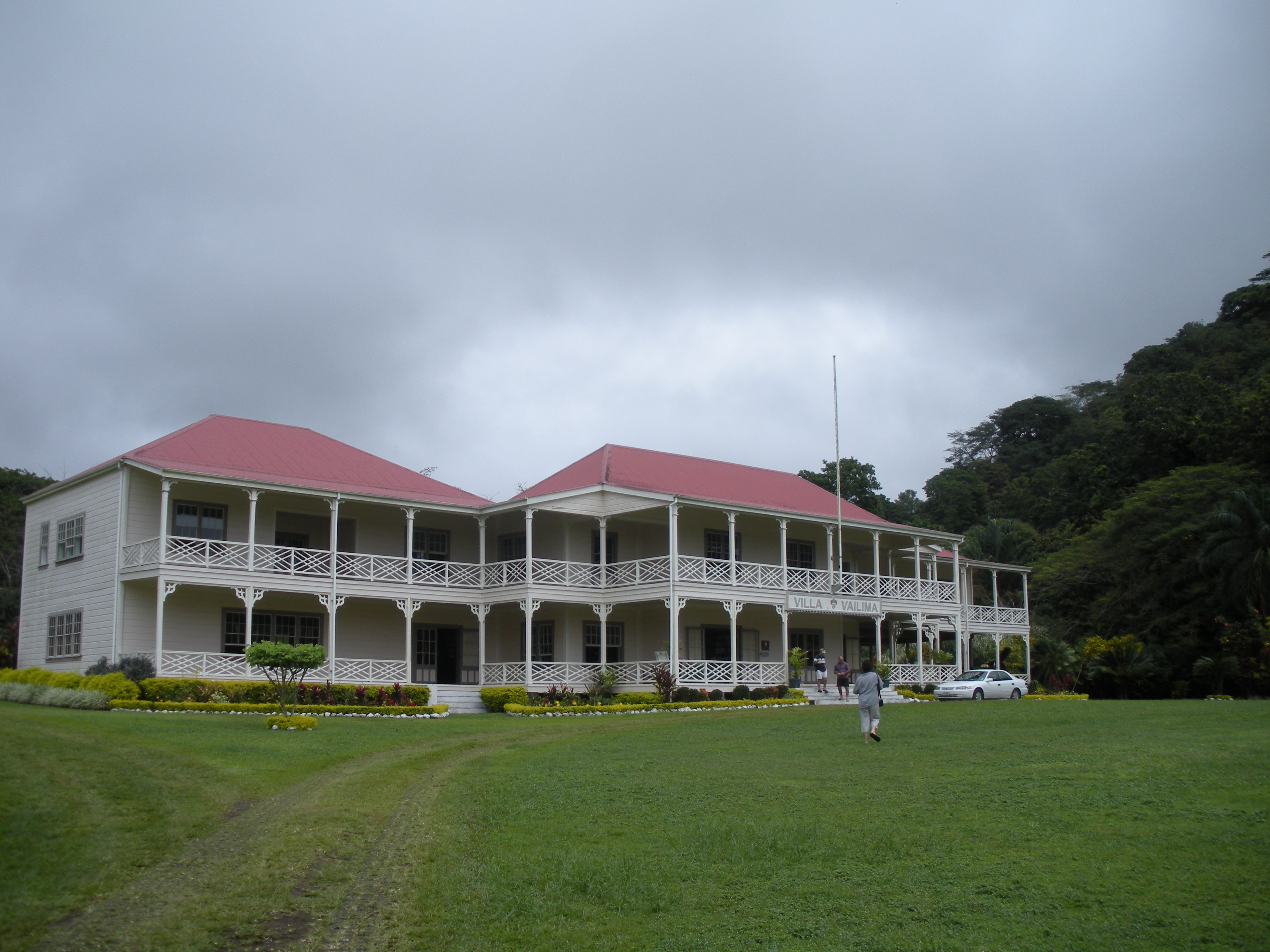 Robert Lewis Stevenson Museum in Vailima (Samoa)